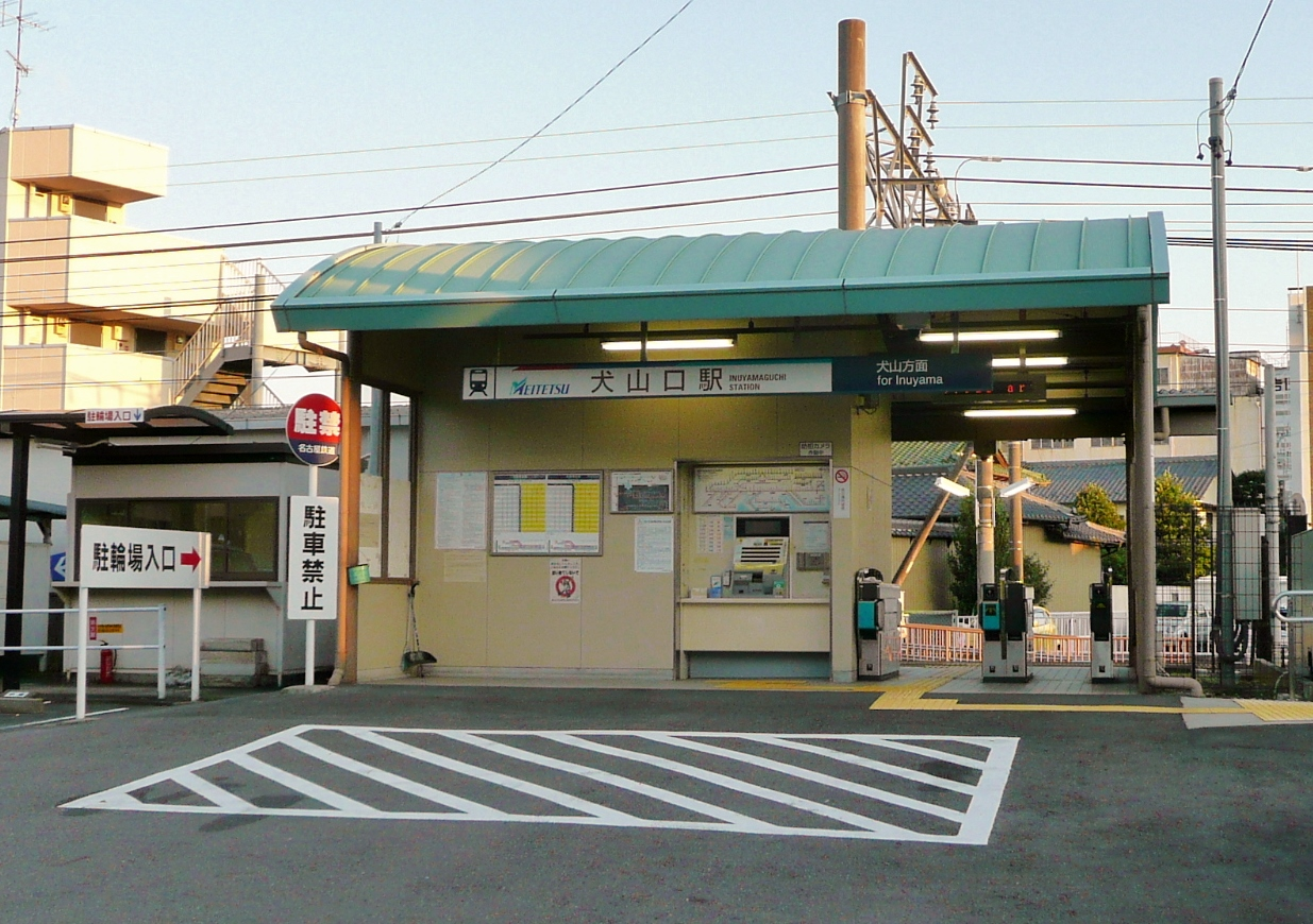 Inuyamaguchi Station for Inuyama entrance,Nagoya Railroad.